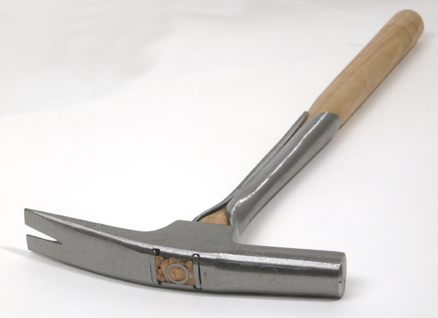 Hammer for upholsterers, polished, with annulated round handle and salient strap around